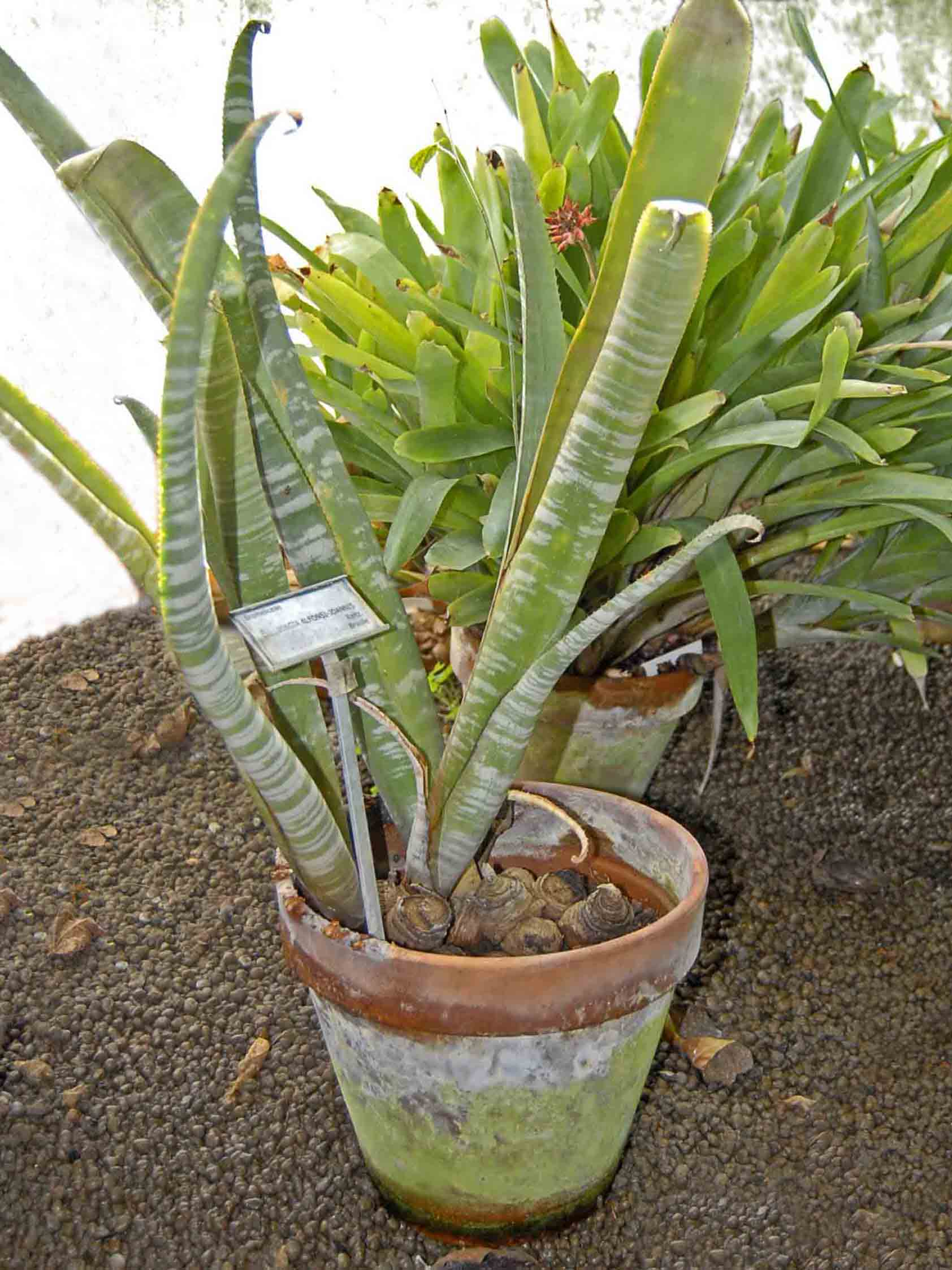 Billbergia alfonsi-joannis at Orto Botanico dell'Università di Genova